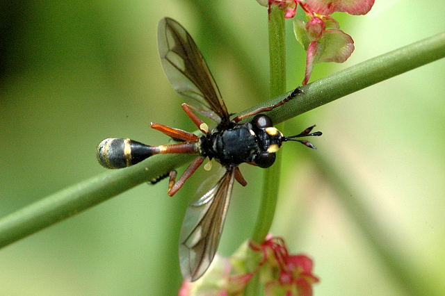 Picture taken in Commanster, Belgian High Ardennes . Species: Physocephala rufipes